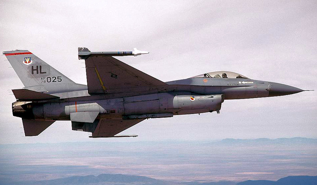 421st Tactical Fighter Squadron General Dynamics F-16A Block 5 Fighting Falcon 78-0025